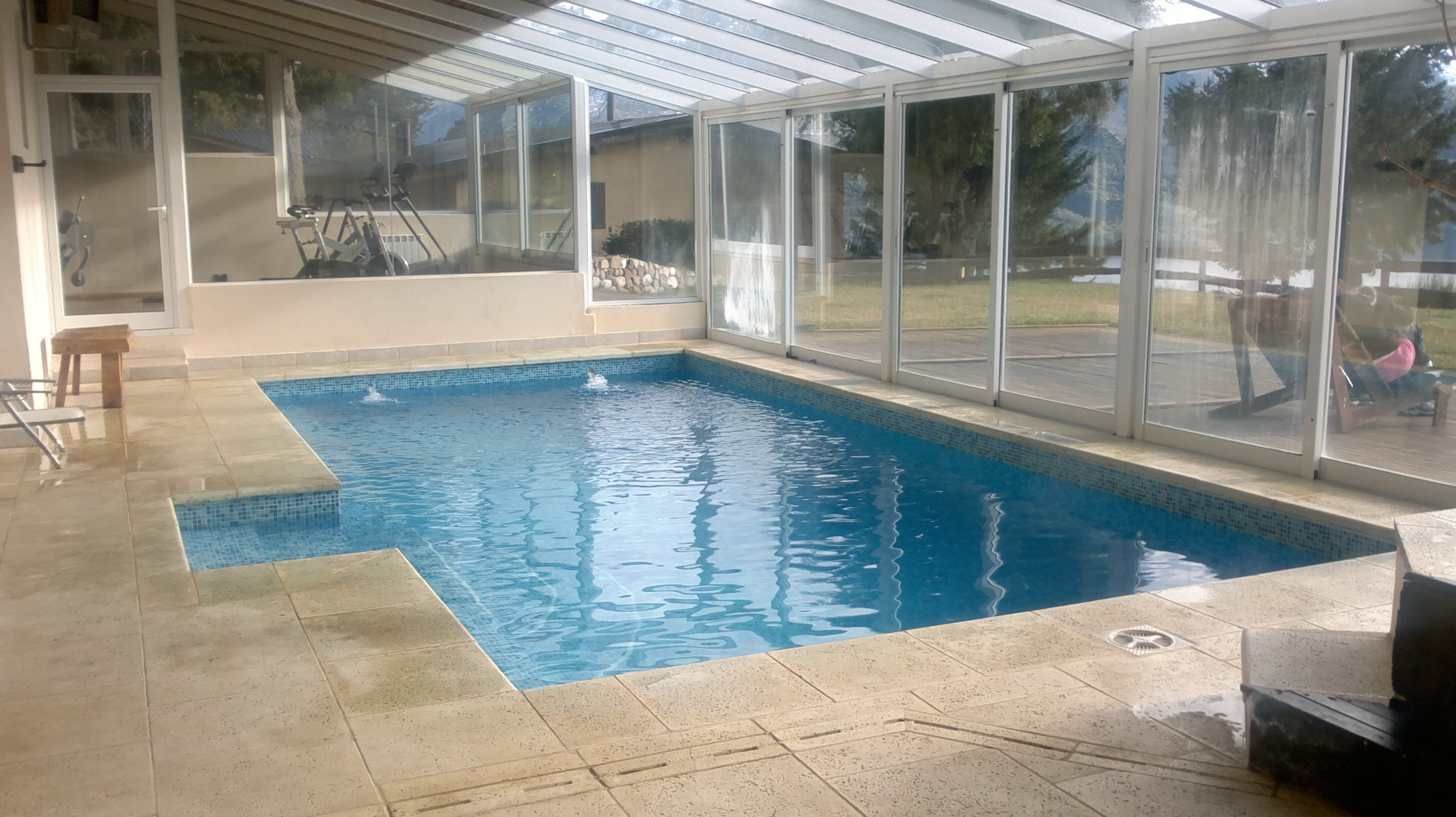 Swimming Pool 25